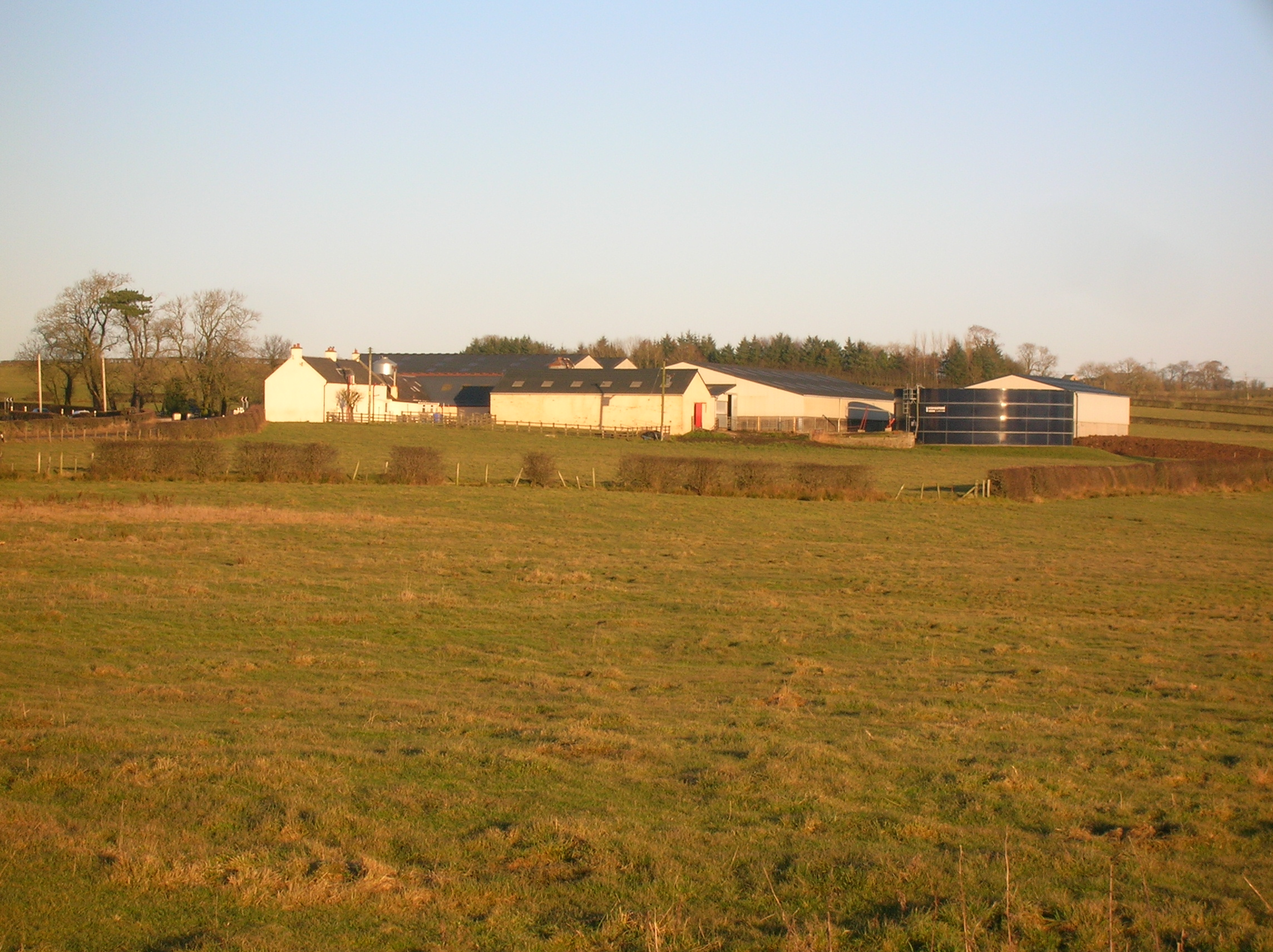 Lochside Farm near the site of Buiston Loch and old crannog, East Ayrshire, Scotland.